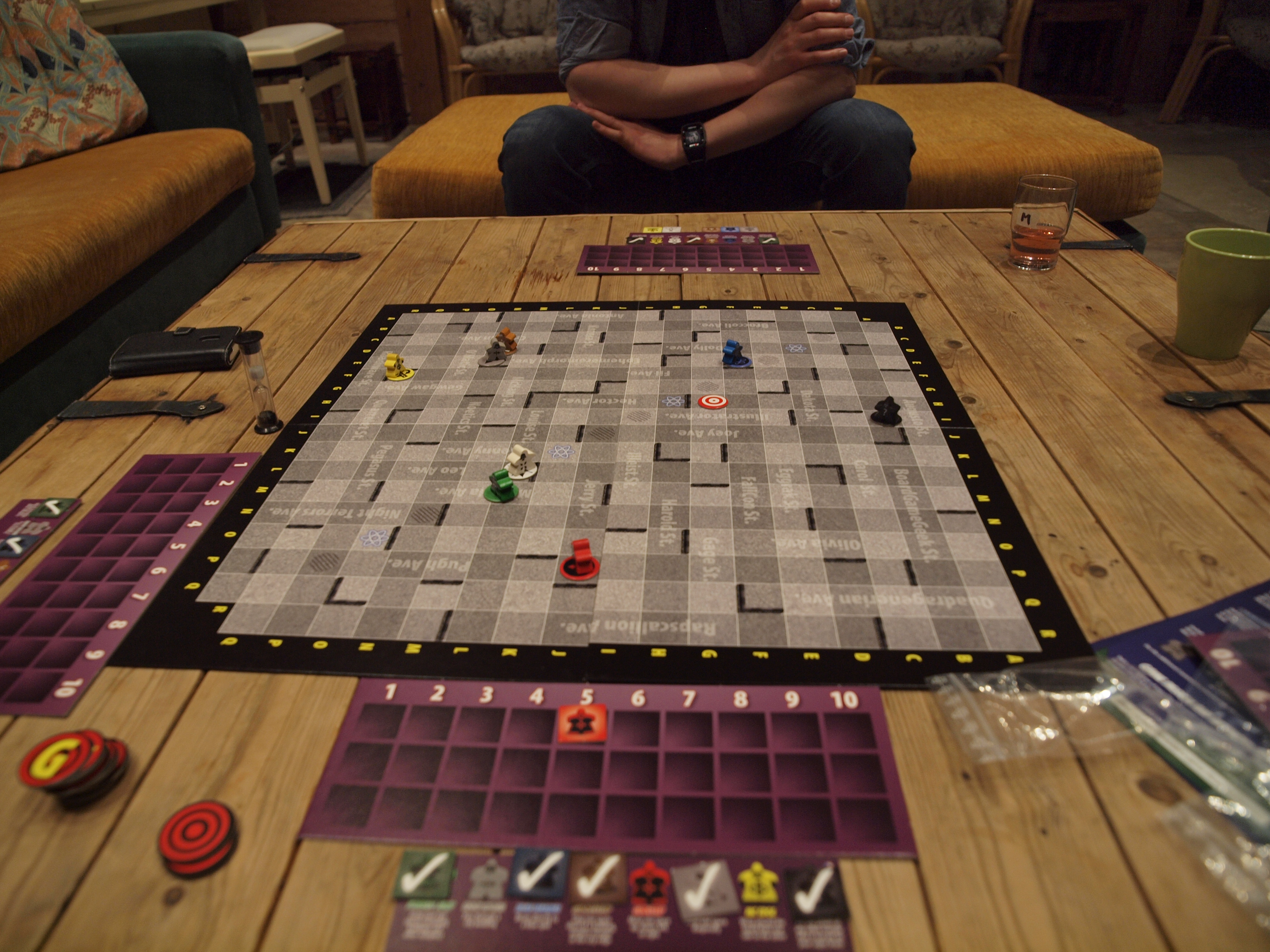 A game of Mutant Meeples near the end of play during a special boardgame weekend camp in Porkkala, Kirkkonummi, Uusimaa, Finland.